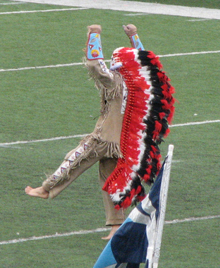 Photo of Chief Illiniwek mascot at University of Illinois football game. Taken by flickr user soundfromwayout on November 11, 2006. CC-BY-2.0 as of 2007-02-20.